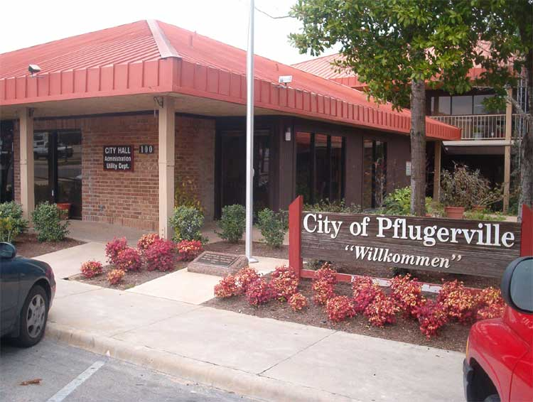 Pflugerville, Texas city hall (photo by User:Hephaestos GFDL)